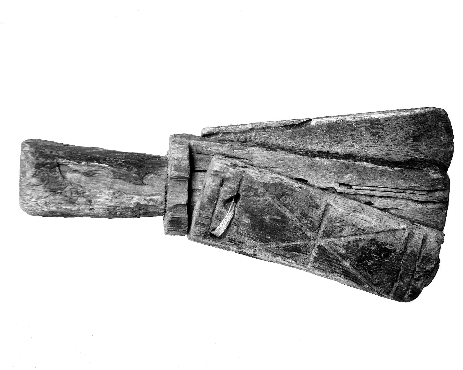 Leper Clapper: three wooden pieces joined with tape. Wellcome Images Keywords: Leprosy